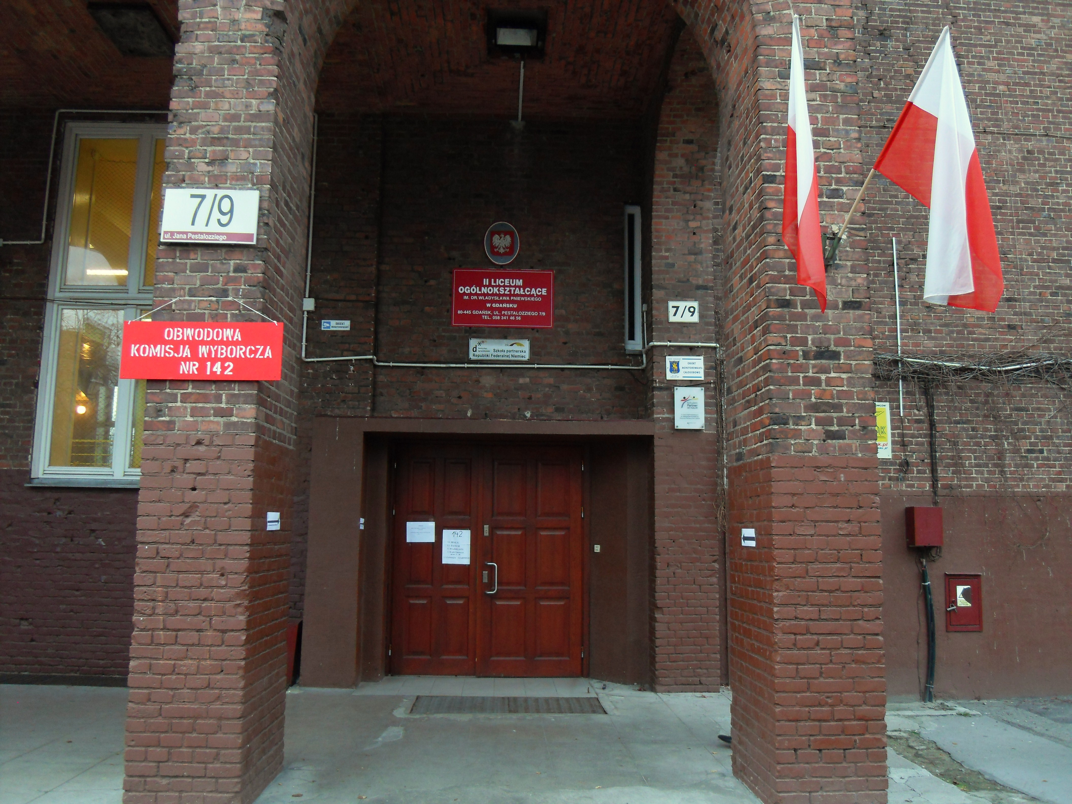 Gdańsk - school in Pestalozziego str.